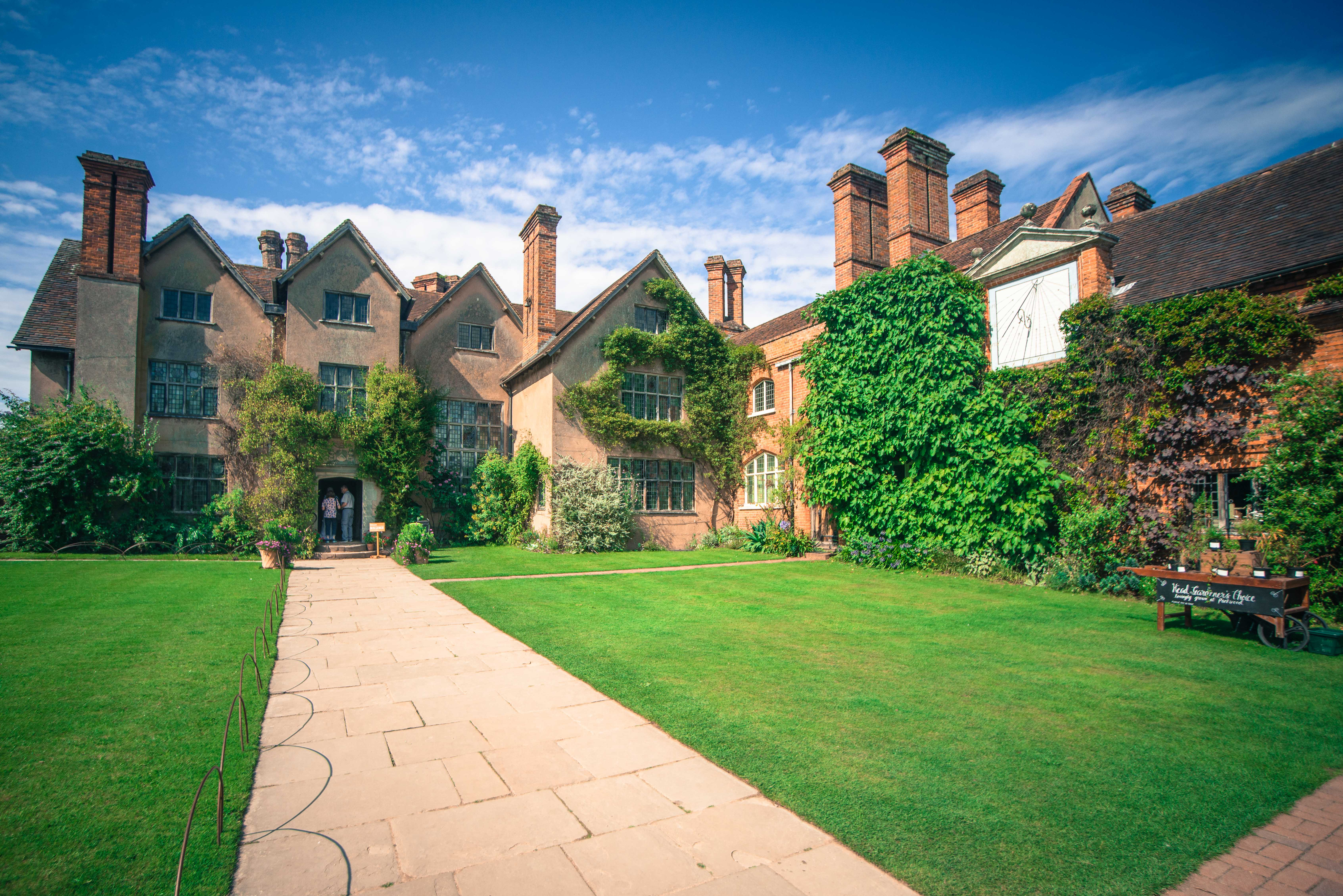 Packwood House - National Trust property Warwickshire